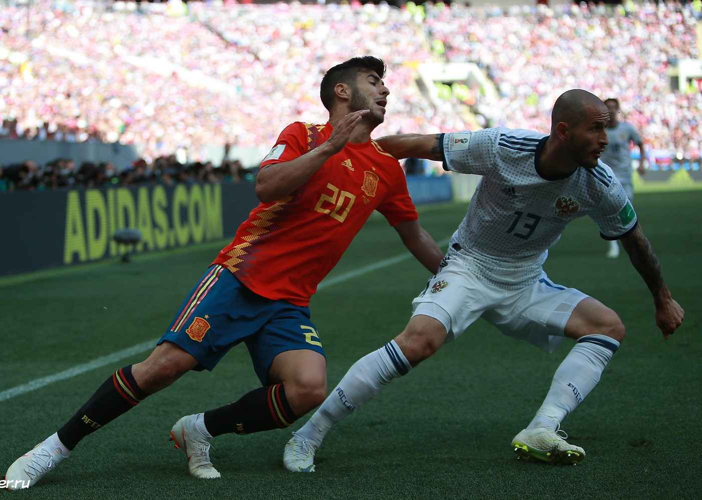 2018 FIFA World Cup Match 51, Russia v Spain